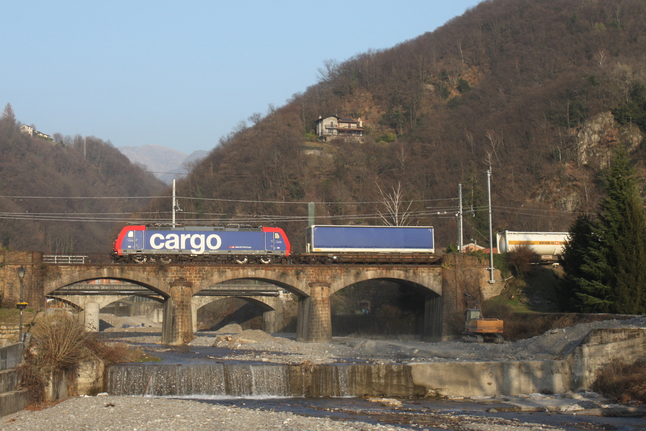 SBB CFF FFS Re 484 021-1 ahead of a northbound freight train at Maccagno.